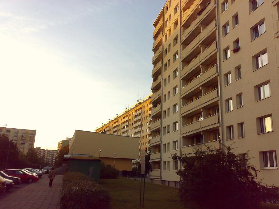 Poznan, Bonin-district. Modernism building.